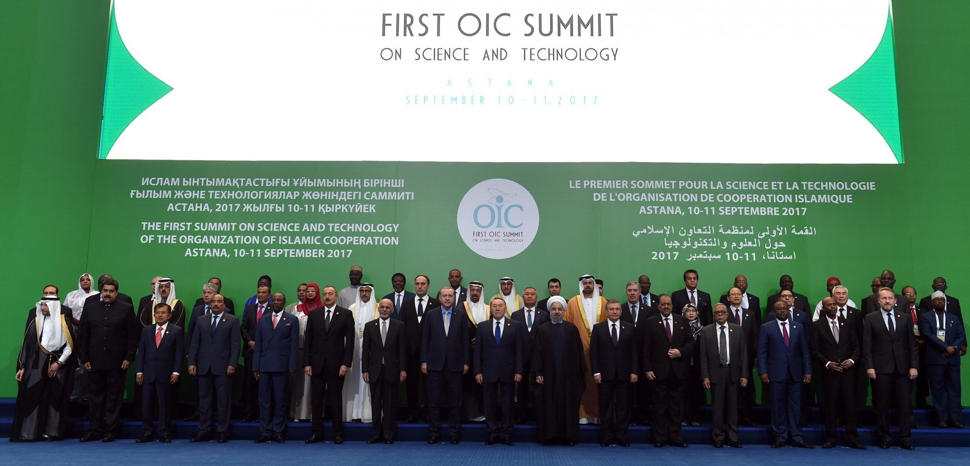 OIC Summit